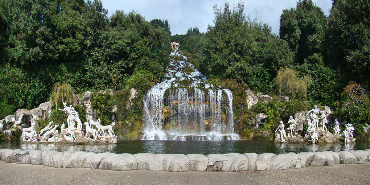 Royal Palace, Caserta, Campania, Italy. The Diana and Actaeon Fountain at the feet of the grand cascade in the Royal Park.